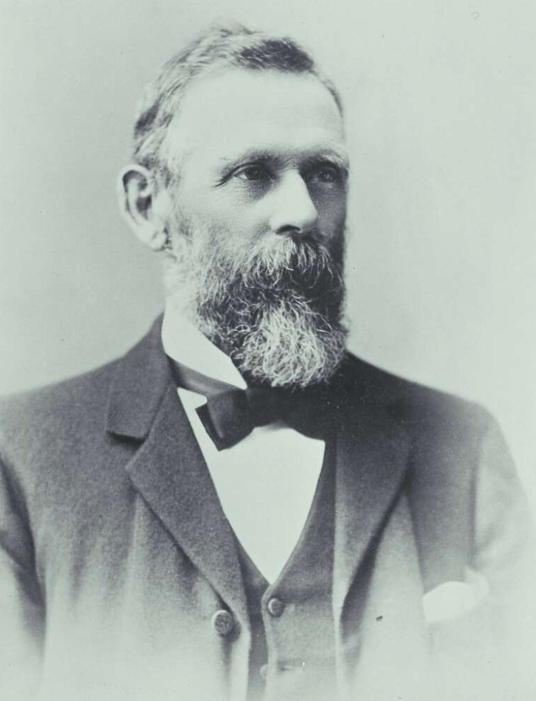 John Henry From the 1898 Australasian Federal Convention Album.